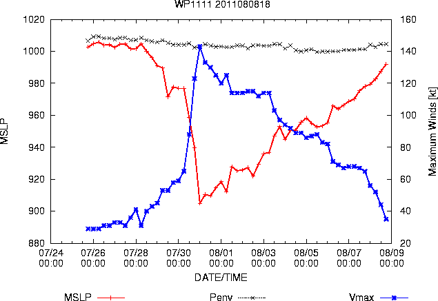 2011颱風梅花的強度折線圖